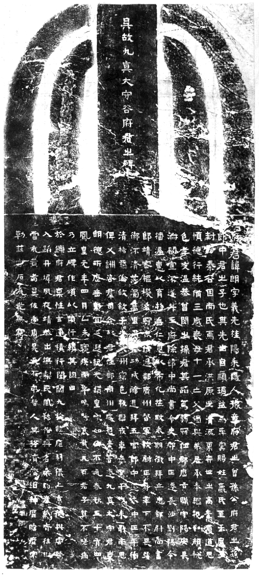 Inscription for Gu Lang "谷朗碑". Full-length.